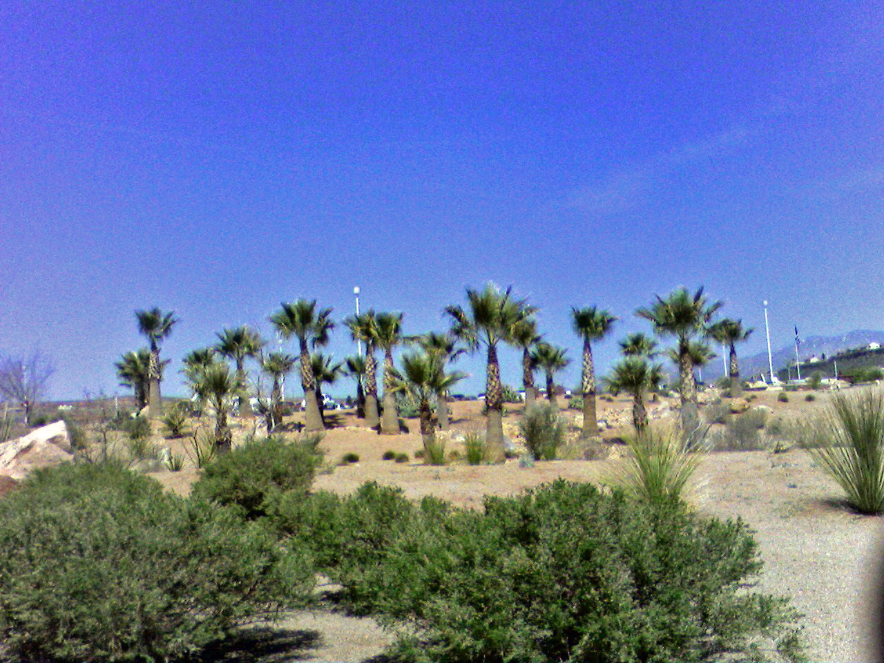 California Fan Palms in St. George, Utah.